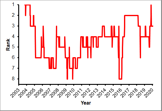 IRB World Rankings from